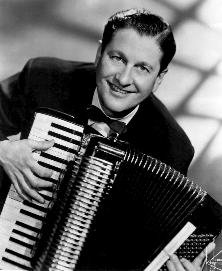 Photo of Lawrence Welk.